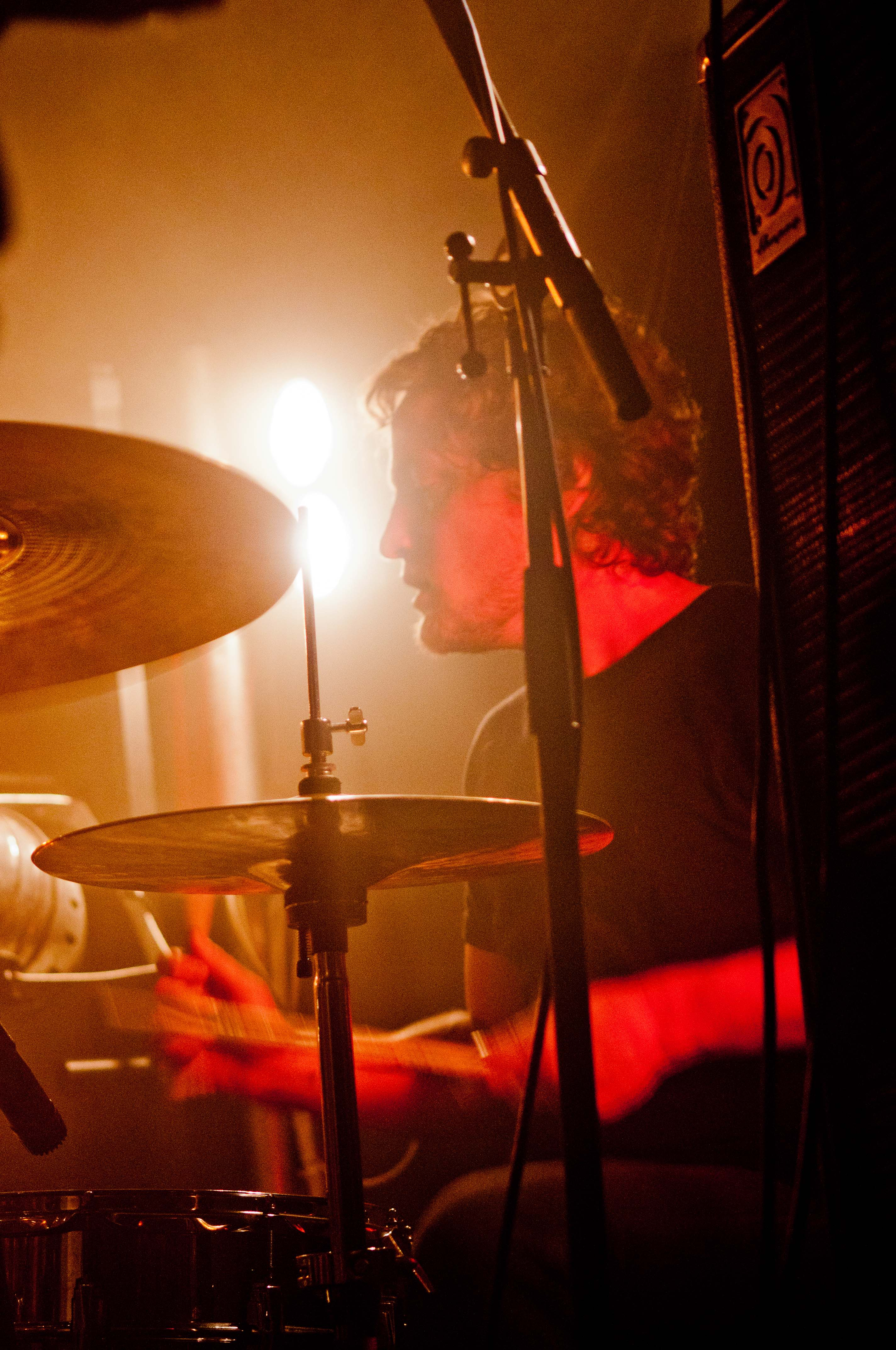 Anais photography Auckland concert TheDatsuns2